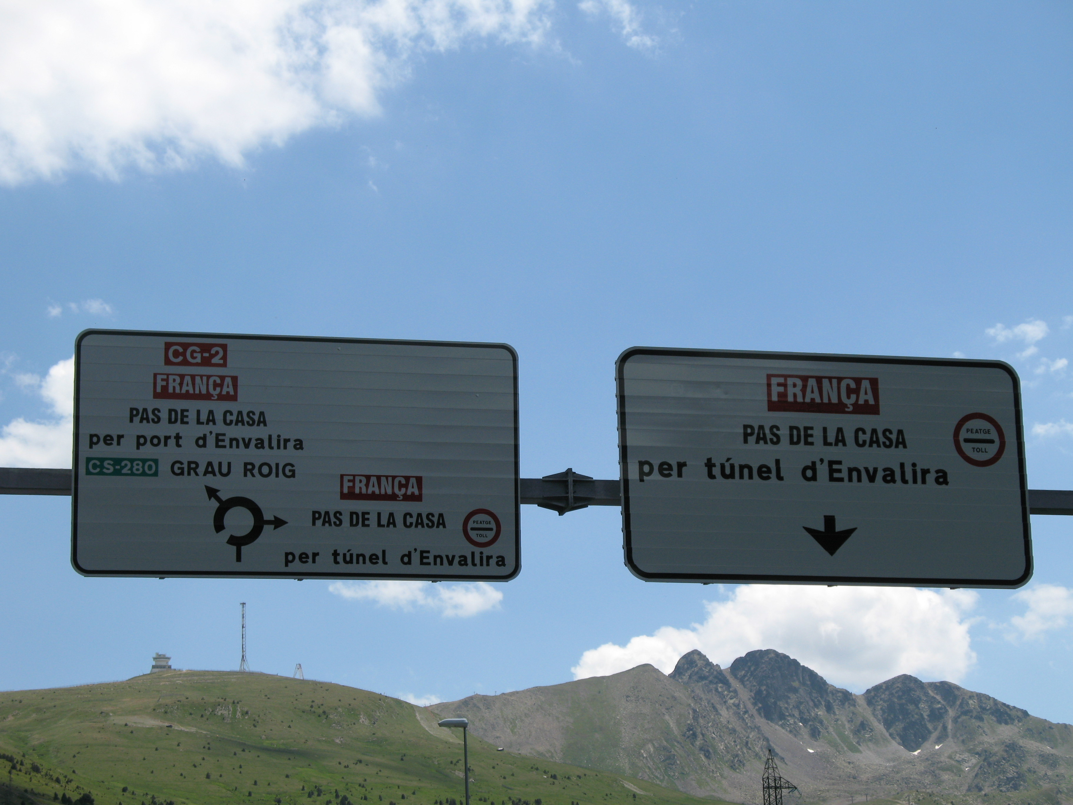 A road sign on the CG-2 in Andorra.